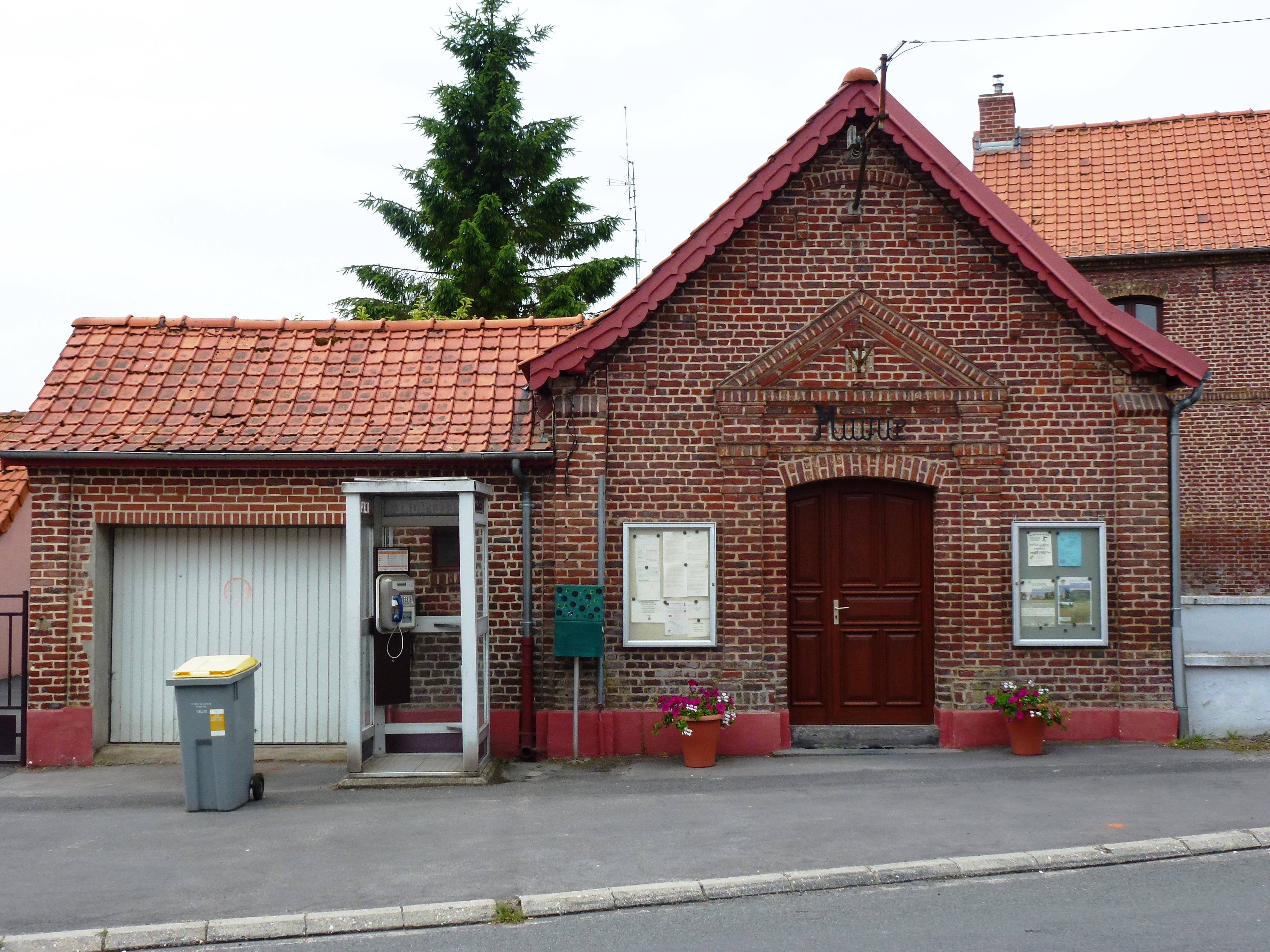 Nédonchel (Pas-de-Calais) mairie